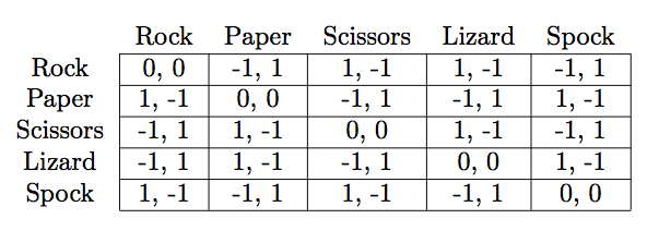 The normal form matrix of Rock-paper-scissors-lizard-Spock. Rows represent available choices for player 1, columns those for player 2. Numbers in cells show utility (payoff) for player 1, player2.